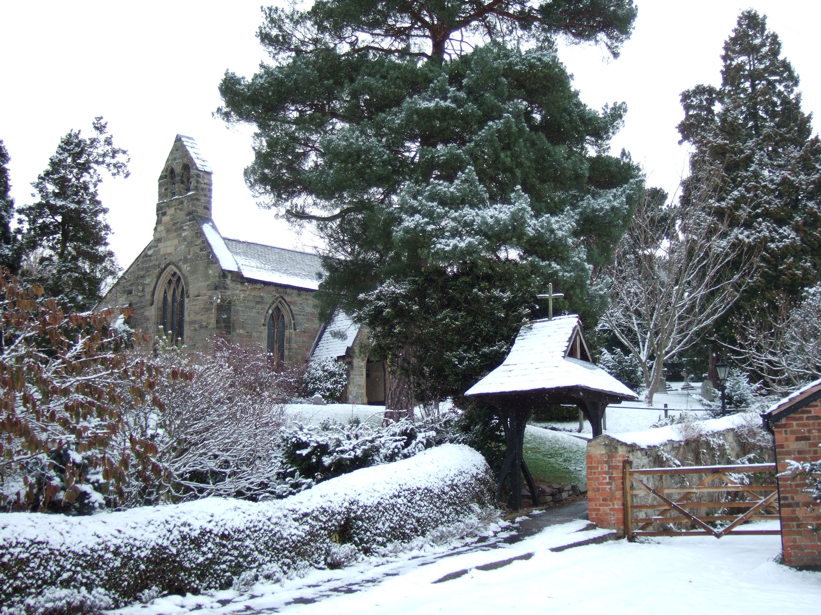 St Anne's parish church, Sutton Bonington, Nottinghamshire, seen from the south in snow